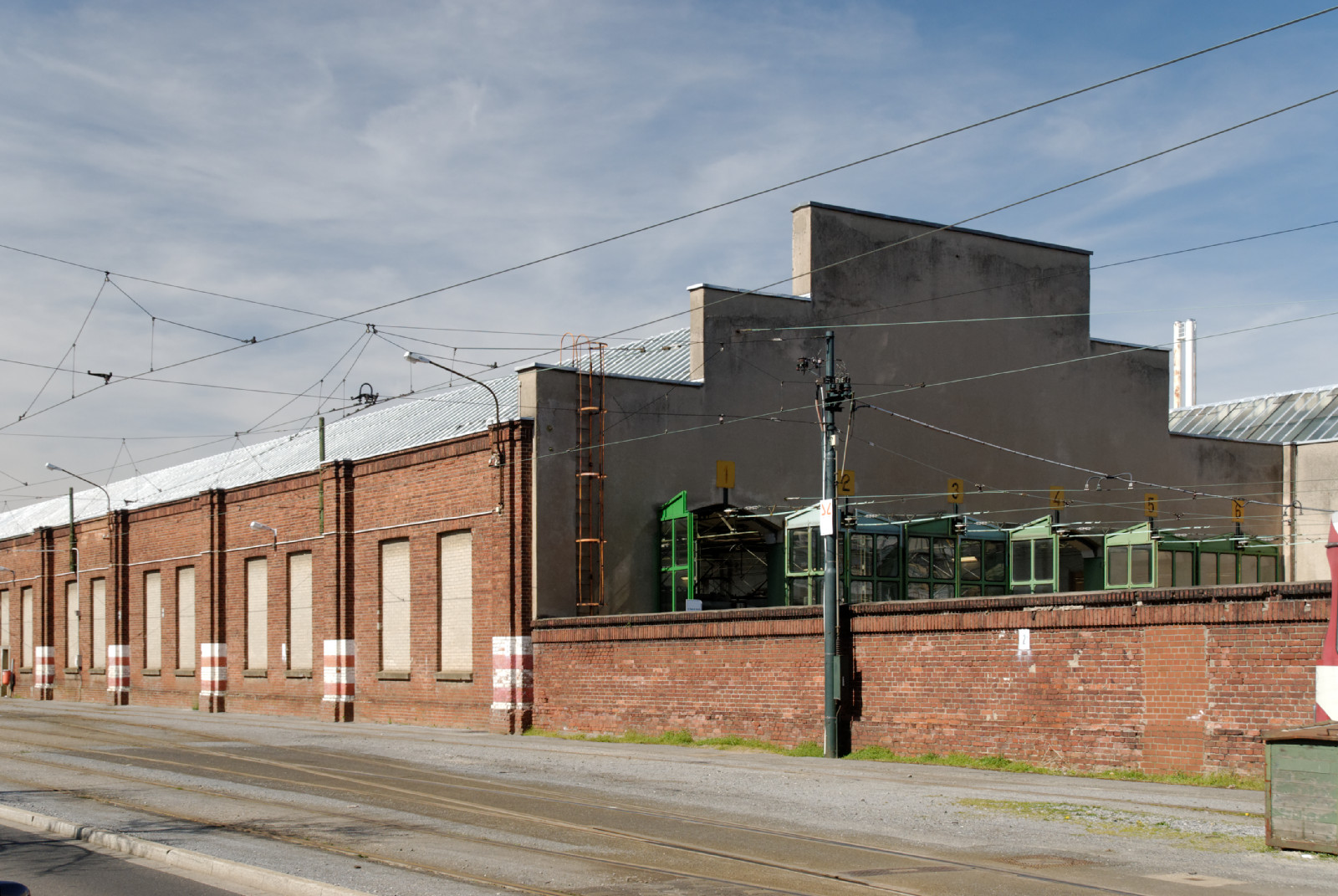 Tram depot Am Steinberg 35 in Düsseldorf-Bilk, Germany